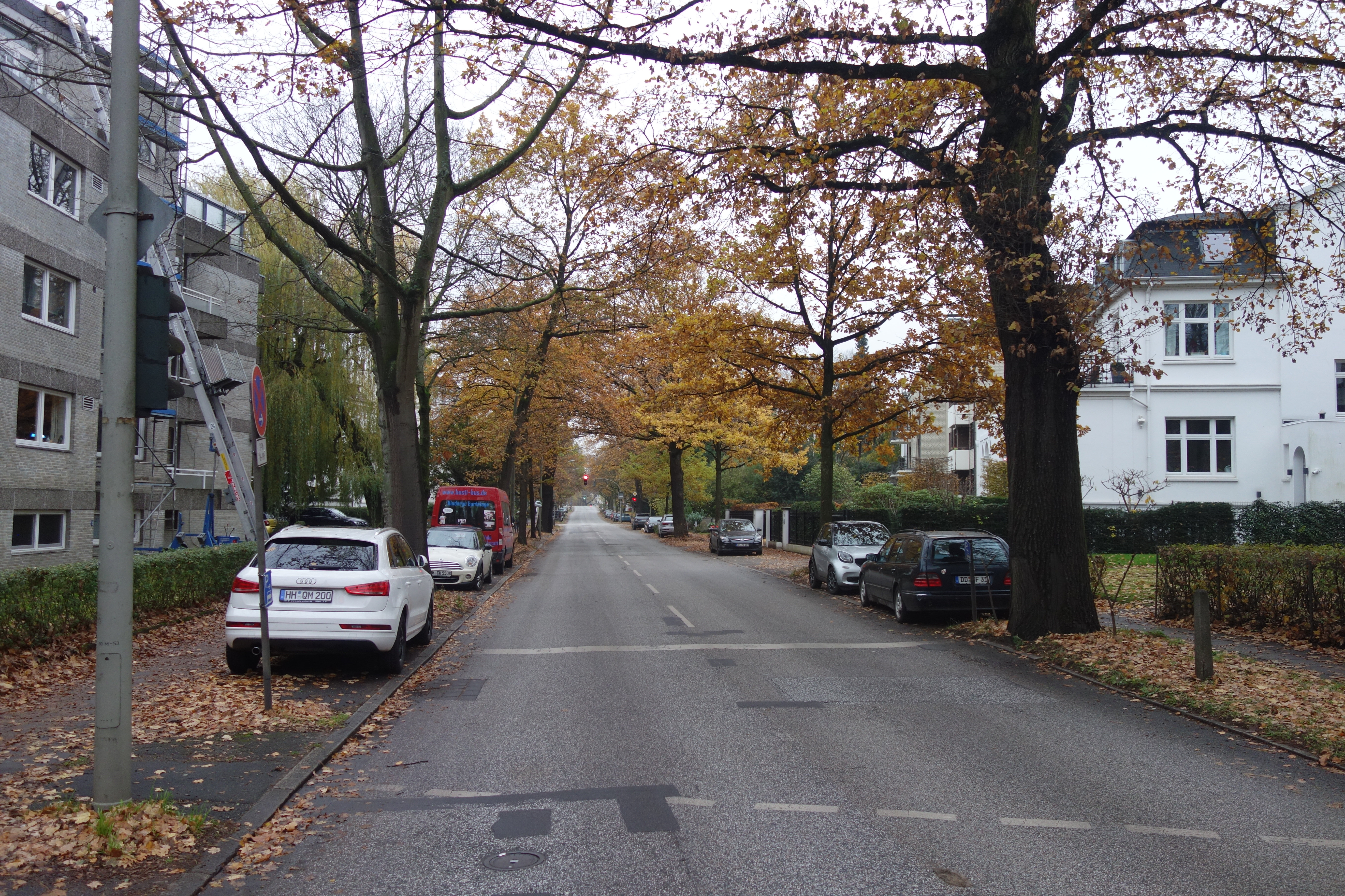 Street in Hamburg, named after a major of the city.